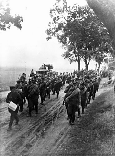 Soviet invasion of Poland 1939 This work is in the public domain in Russia according to article 1281 of Book IV of the Civil Code of the Russian Federation No. 230-FZ of December 18, 2006 and article 6 of Law No. 231-FZ of the Russian Federation of December 18, 2006 (the Implementation Act for Book IV of the Civil Code of the Russian Federation) (details). Usually:[1] The author of this work died before January 1, 1942. The author of this work died between January 1, 1942 and January 1, 1946, did not work during the Great Patriotic War (Eastern Front of World War II) and did not participate in it. This work was originally published anonymously or under a pseudonym before January 1, 1943 and the name of the author did not become known during 50 years after publication. This work was originally published anonymously or under a pseudonym between January 1, 1943 and January 1, 1946, and the name of the author did not become known during 70 years after publication. This work is non-amateur cinema or television film (or shot, or fragment from it), which was first shown between January 1, 1929[2] and January 1, 1946. This work is in the public domain in the United States, because it was in the public domain in its home country (Russia) on the URAA date (January 1, 1996), and it wasn't re-published for 30 days following initial publications in the U.S. [1] If the author of this work was subjected to repression and rehabilitated posthumously, countdown of copyright protection began not from the death date, but from the rehabilitation date. If the work was first published posthumously, the copyright term is counted from the date of that first publication, unless the author was later rehabilitated, in which case it runs again from that later rehabilitation date. [2] Cinema films first shown before January 1, 1929 are subjects of points 1 and 2 of this template.